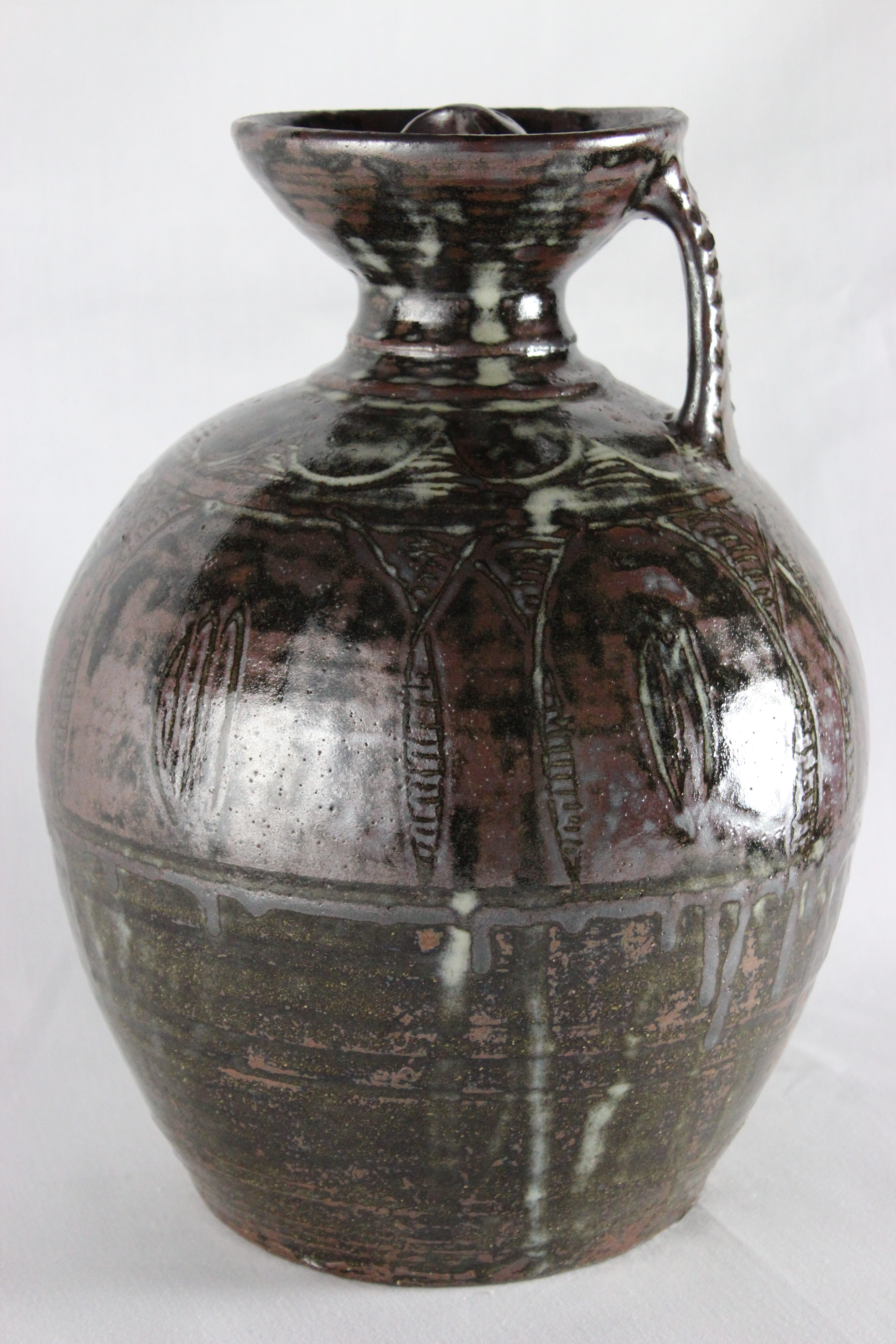 Wine or oil jar with screw stopper, wide collar and handle. Red slip and transparent glaze. Incised fish around body. From the W.A. Ismay Studio Ceramics Collection at York Art Gallery